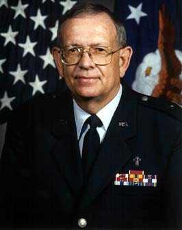 BGEN Hiram L. (Doc) Jones, USAF